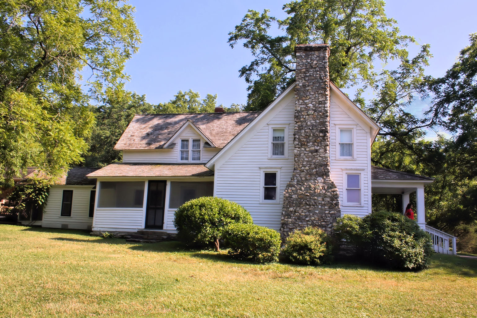 Almanzo Wilder and Laura Ingalls Wilder's Rocky Ridge Farm, Mansfield, MO; taken by TimothyMN; adjusted as allowed by Creative Commons Attribution-ShareAlike 3.0 Unported (CC BY-SA 3.0) licensing.